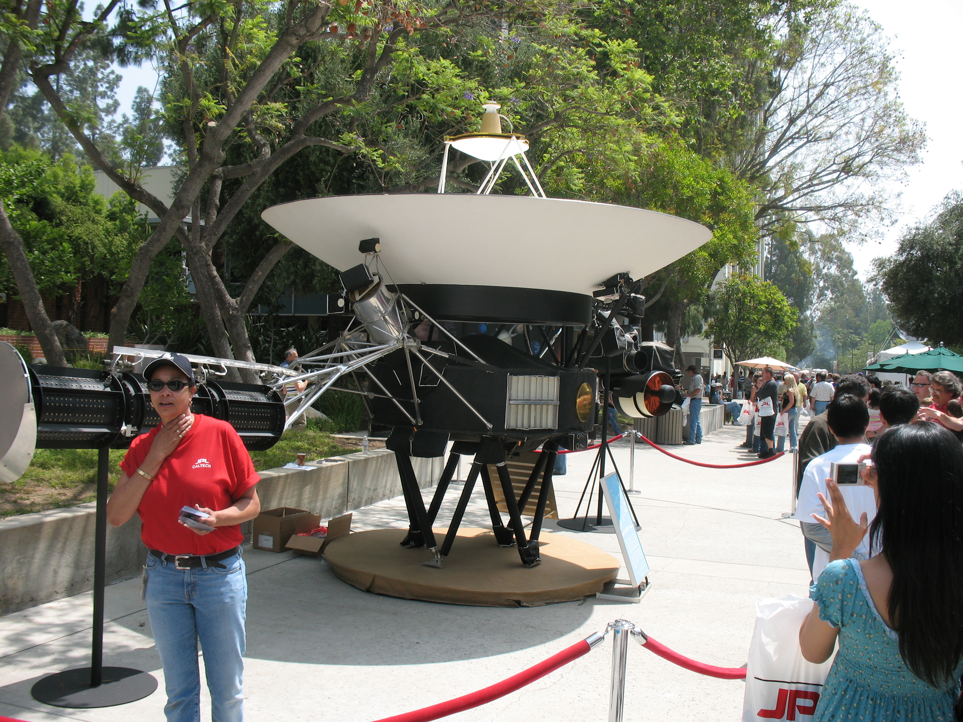 Picture of a full-size mockup of a Voyager space probe at the 2007 JPL Open House event.